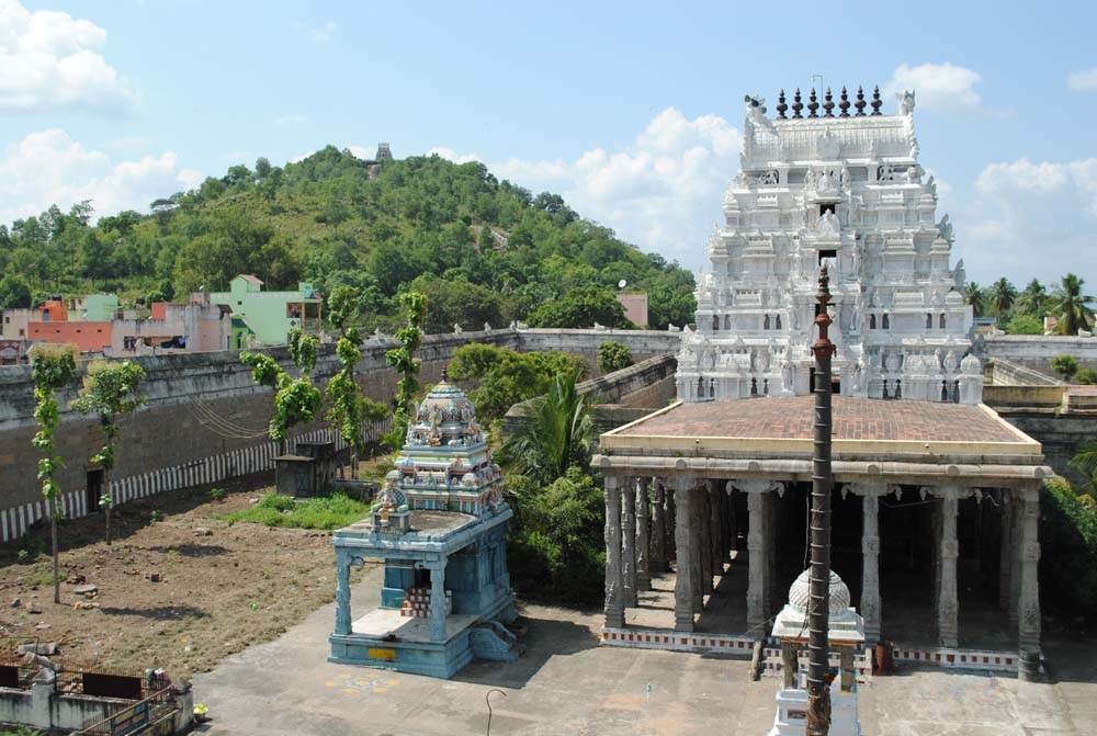 Sri Periyanayagi amman temple, Devikapuram